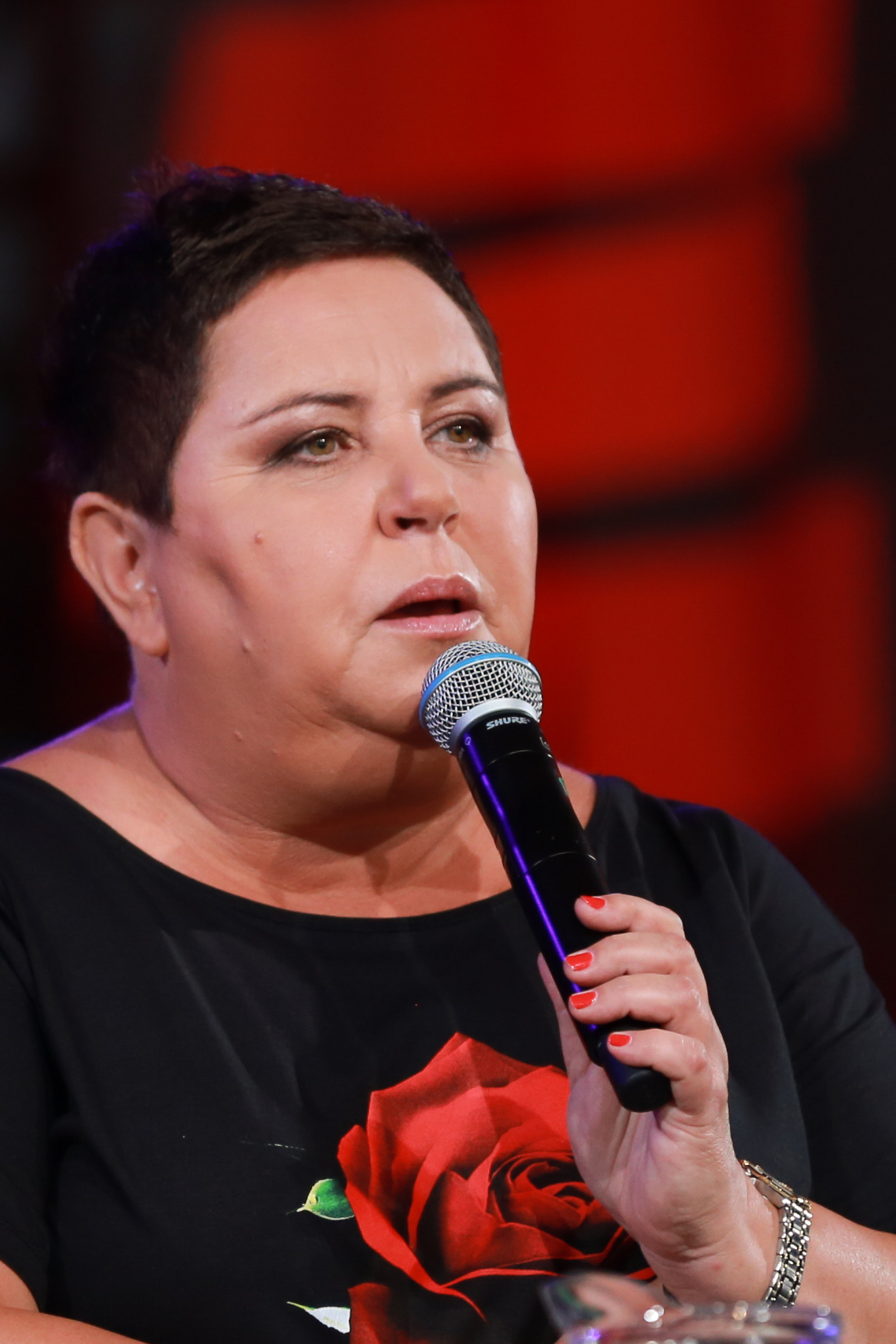 Pol'and'Rock Festival in 2018.